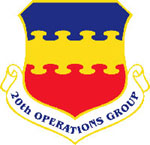 The crest/seal of the 20th Operations Group.